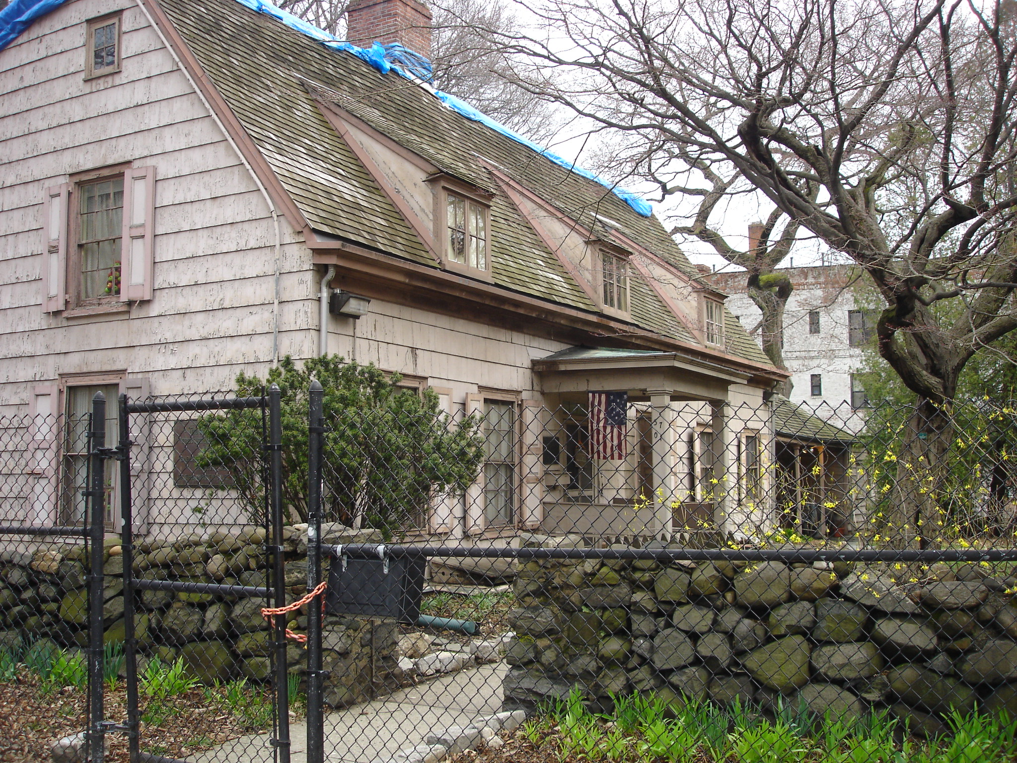 This photo is of Wikipedia Takes Manhattan location code 178, John Bowne House.